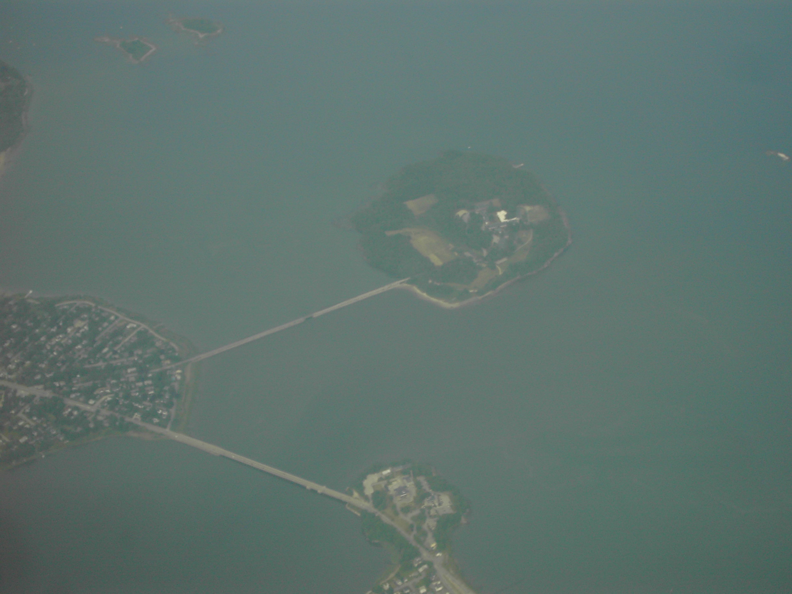 Mackworth Island from 10,000 feet. Photograph by Rubyk